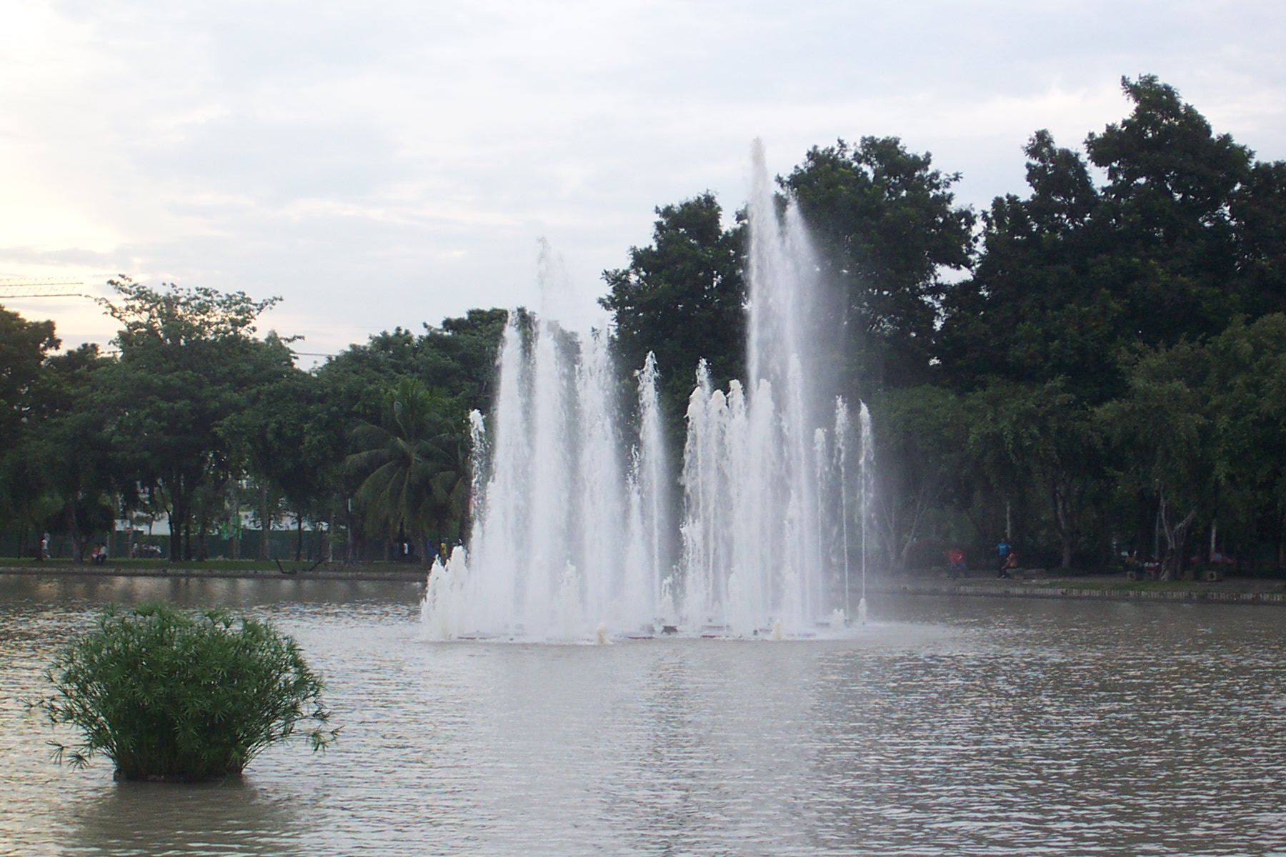 Pond with fountain, a water feature in Chatuchak Park, Bangkok.